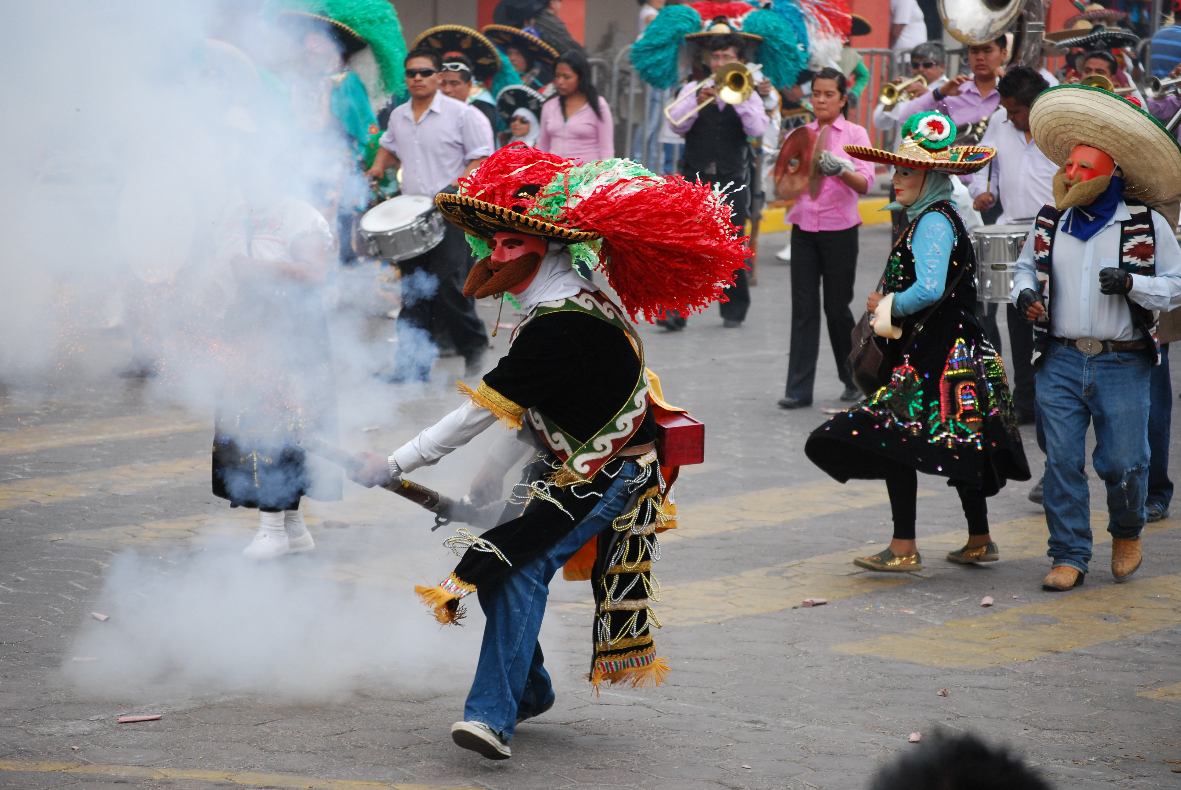 Person dressed as a Zacapoaxtla firing a rifle during the Carnival of Huejotzingo, Puebla, Mexico